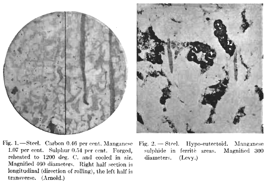 Inclusions of Manganese sulphide (MnS), seen as gray and elongated spots.